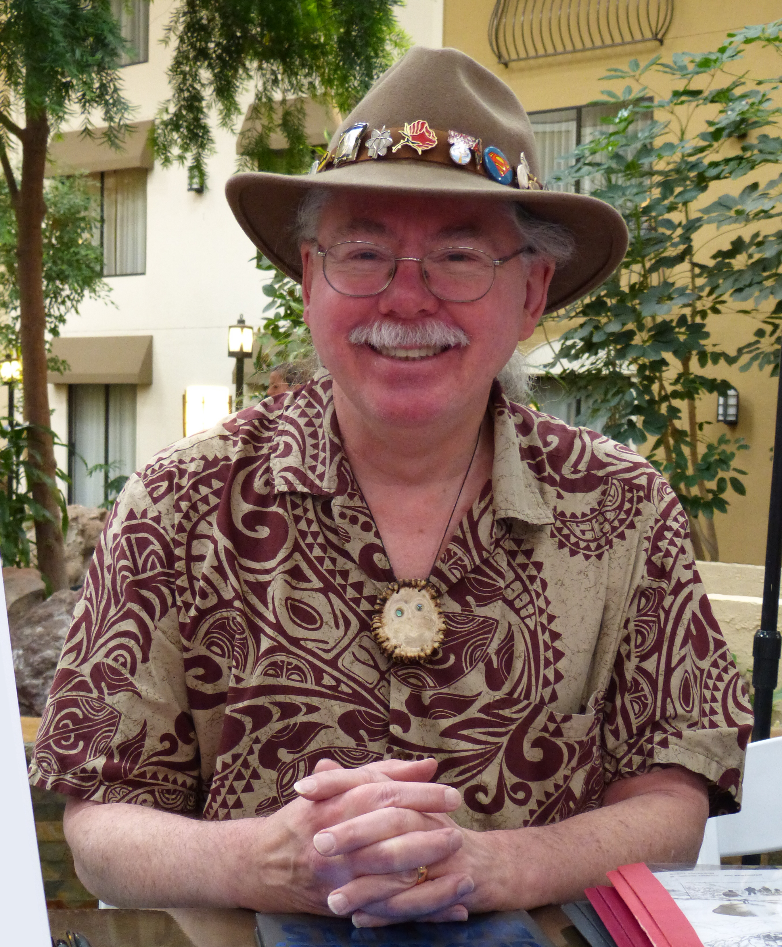 A photo of comics artist Brent Anderson.